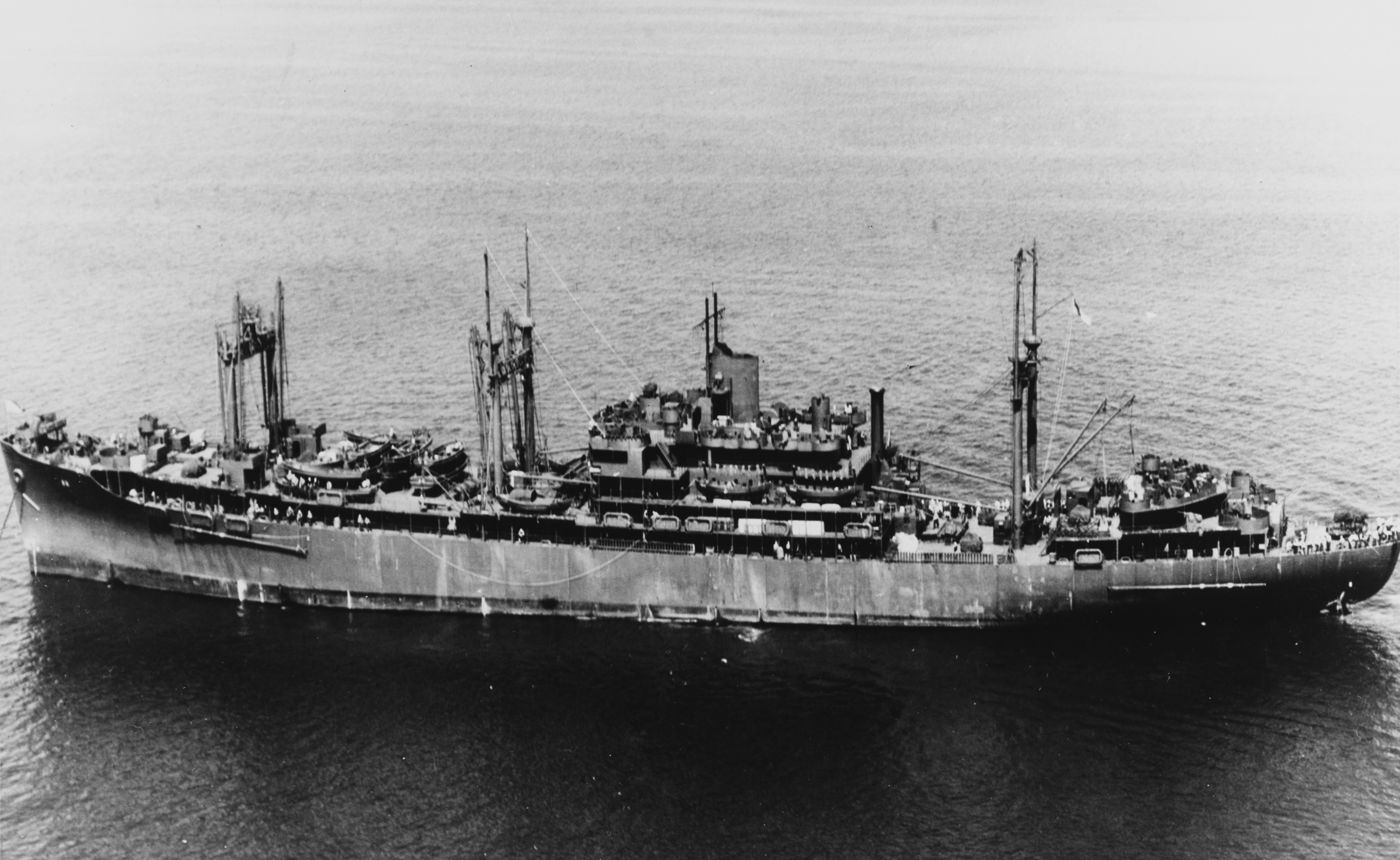 The U.S. Navy destroyer tender USS Klondike (AD-22) at anchor in August 1945.